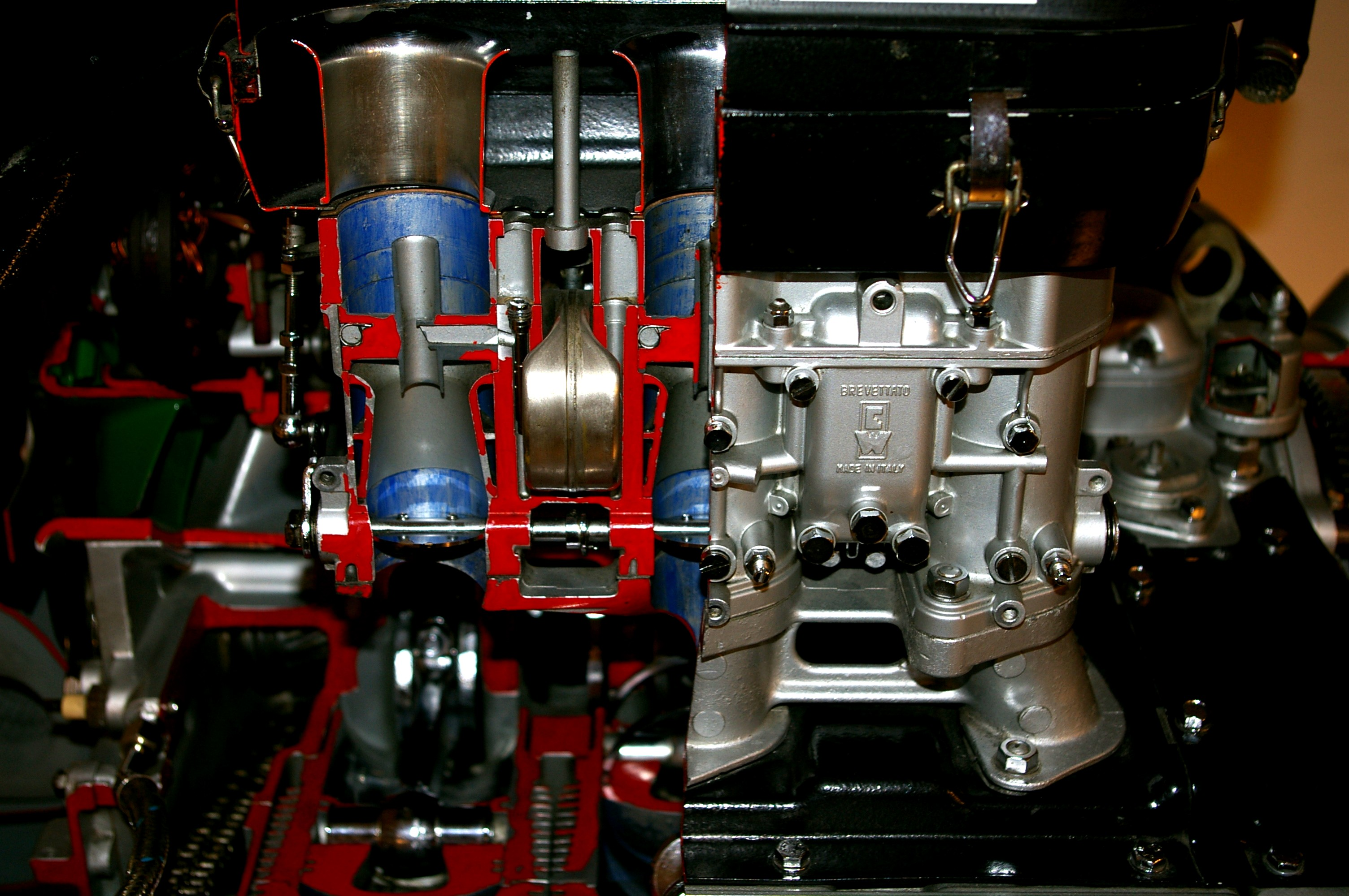 Triple carburetor of a PORSCHE 6 cyl. engine, cutaway model, PORSCHE Museum, Stuttgart, Germany